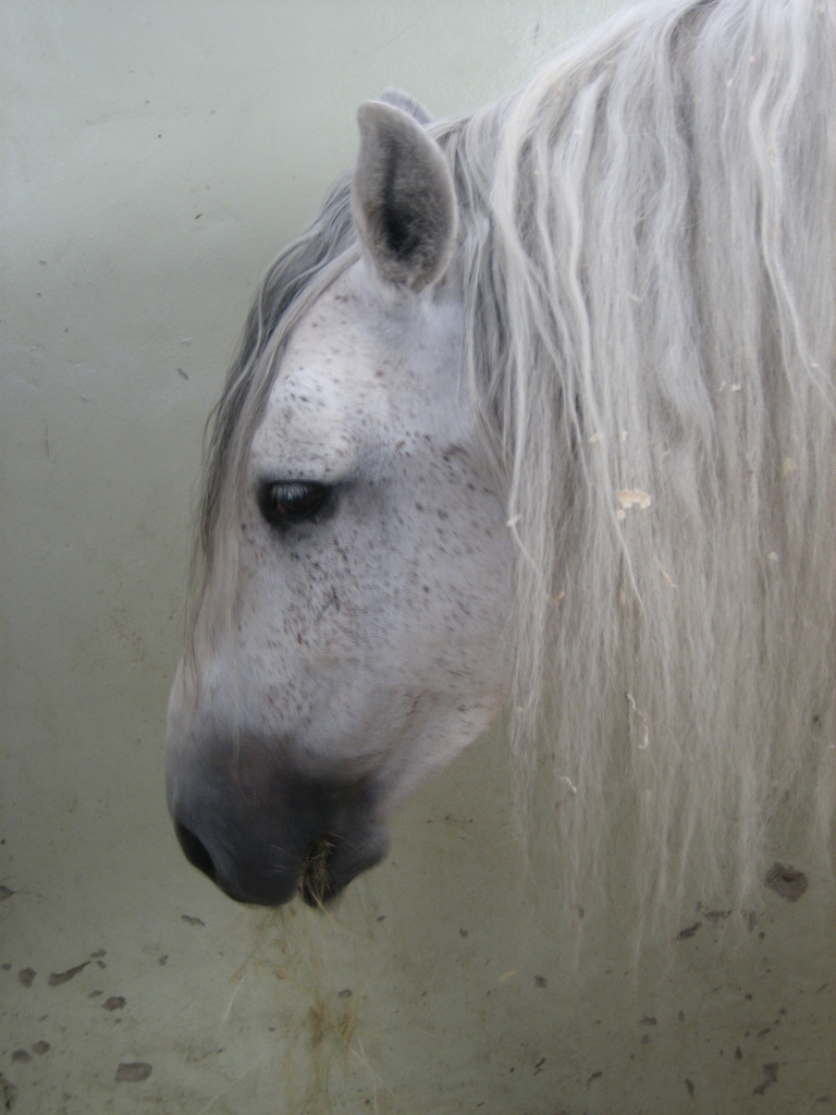 A grey spanish horse (Andalusian)